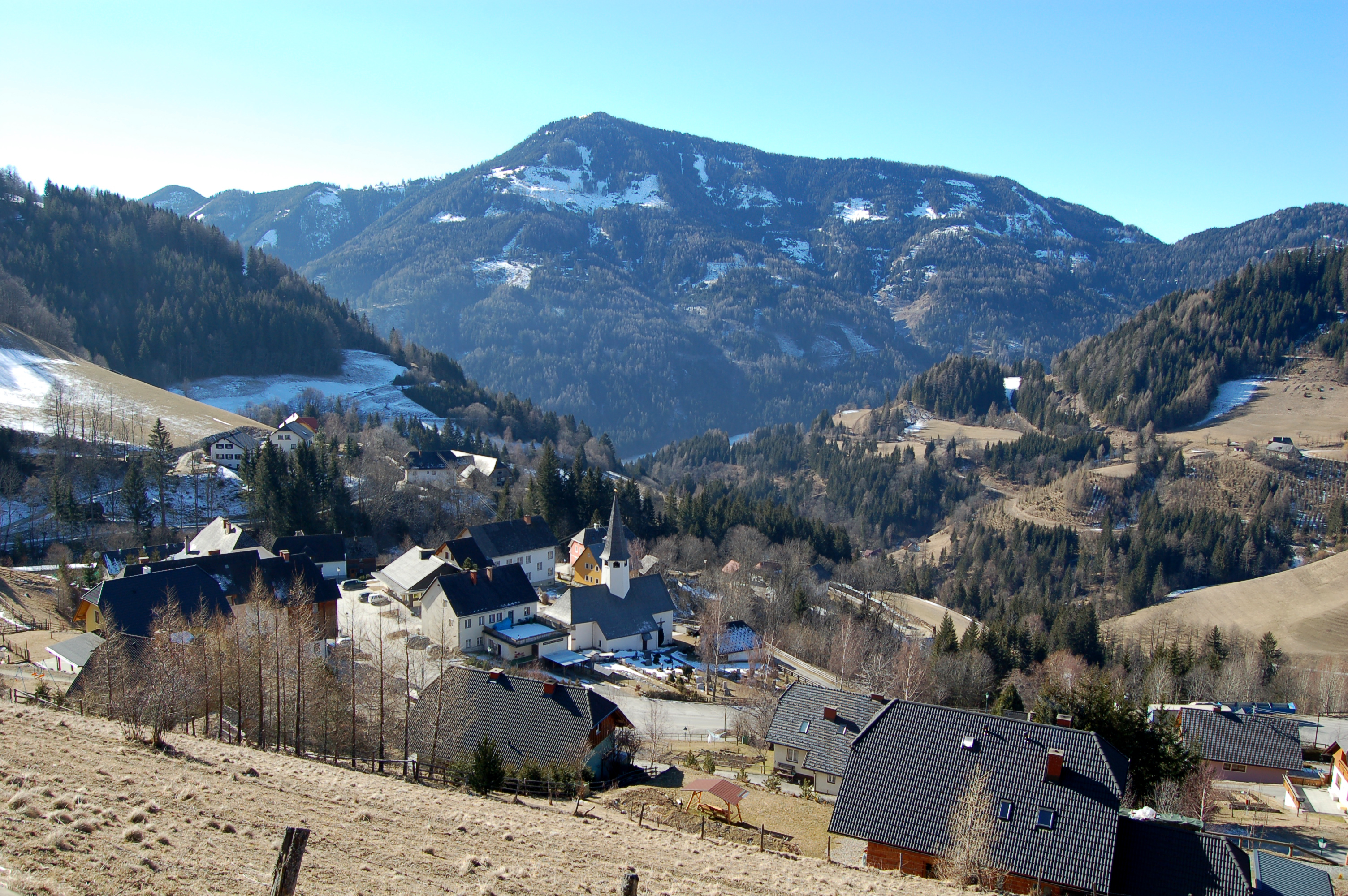 Schönberg-Lachtal in Styria, Austria, view direction south-west to Pleschaitz mountain (1797m)